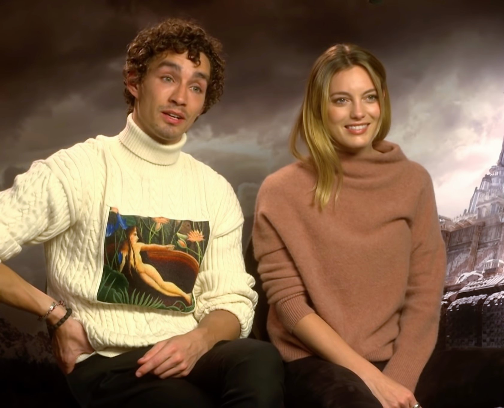 Mortal Engines Cast Go Speed Dating | MTV Movies We date Robert Sheehan, Leila George, Jihae, and Hera Hilmar as they reveal deleted scenes and funniest moments on set. Get social with MTV @ 💋 Twitter: 🍺 Instagram: 💅 Tumblr: 🍿 Facebook: 🎷 Official